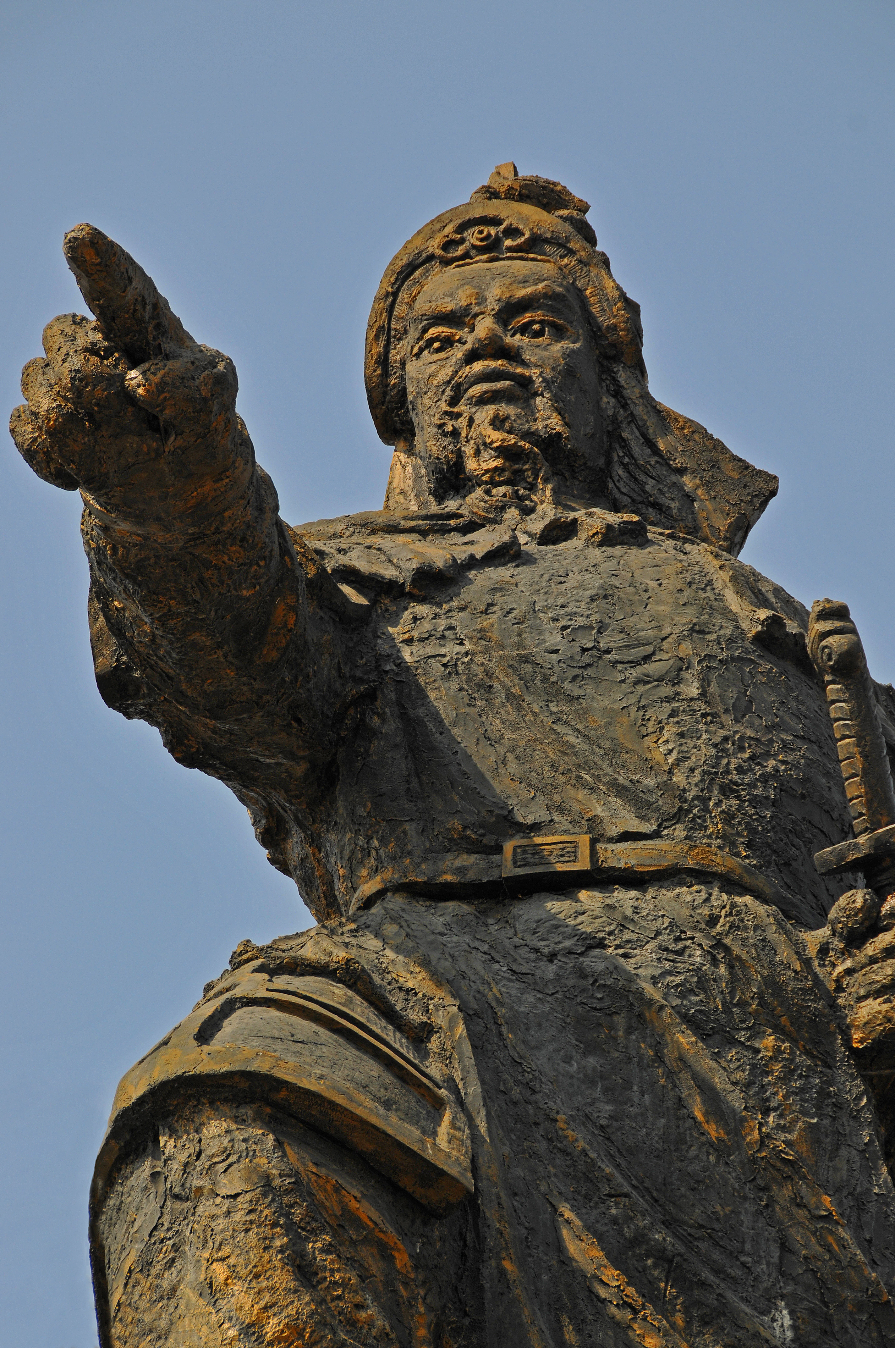 Statue of Tran Hung Dao, Ho Chi Minh City, Vietnam